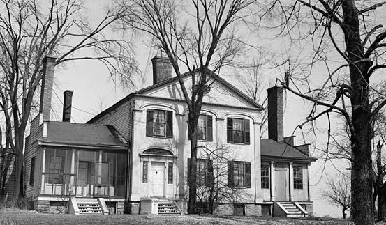 Judge Nathan Roberts House, State Highway 5, Canastota vicinity (Madison County, New York) cropped